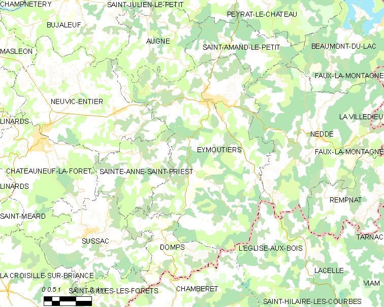 Map of French municipality Eymoutiers